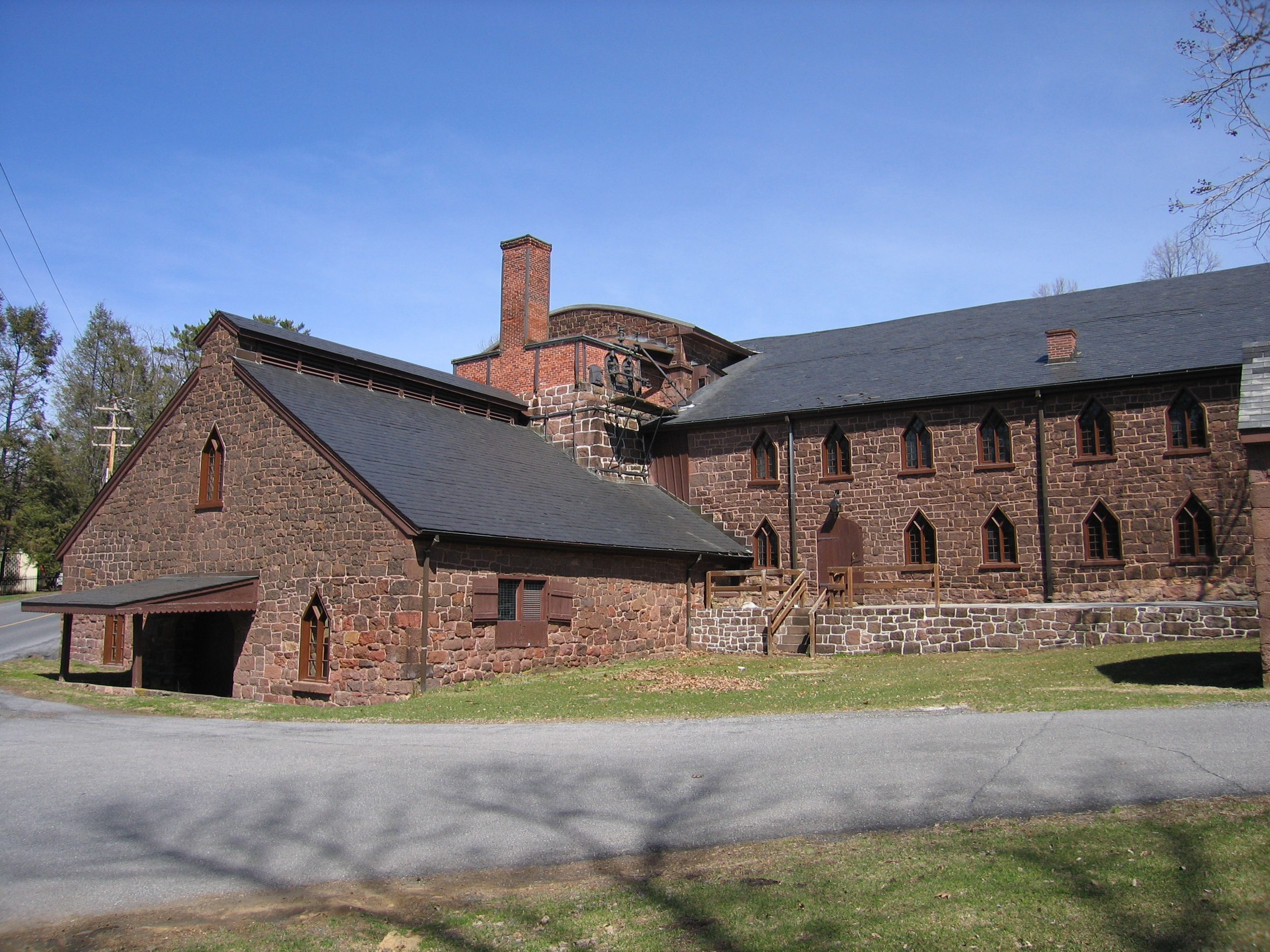 Picture of main building at Cornwall Iron Furnace taken 30 Mar 2007.